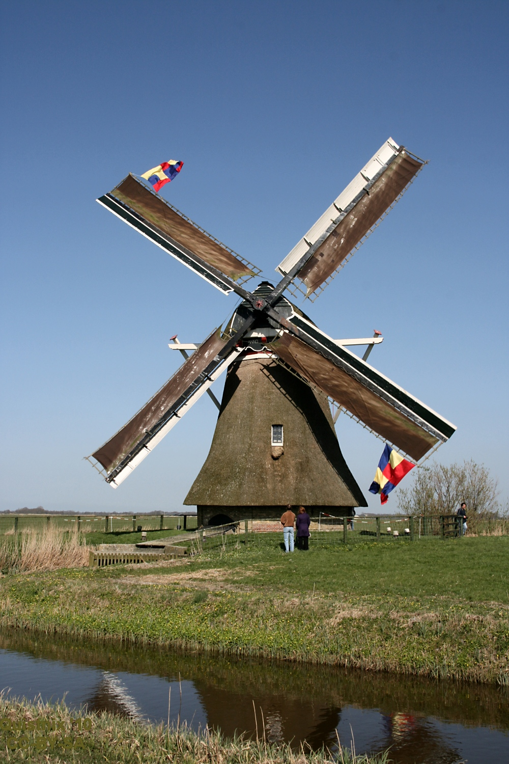 Lekkum: Bullemolen with flags